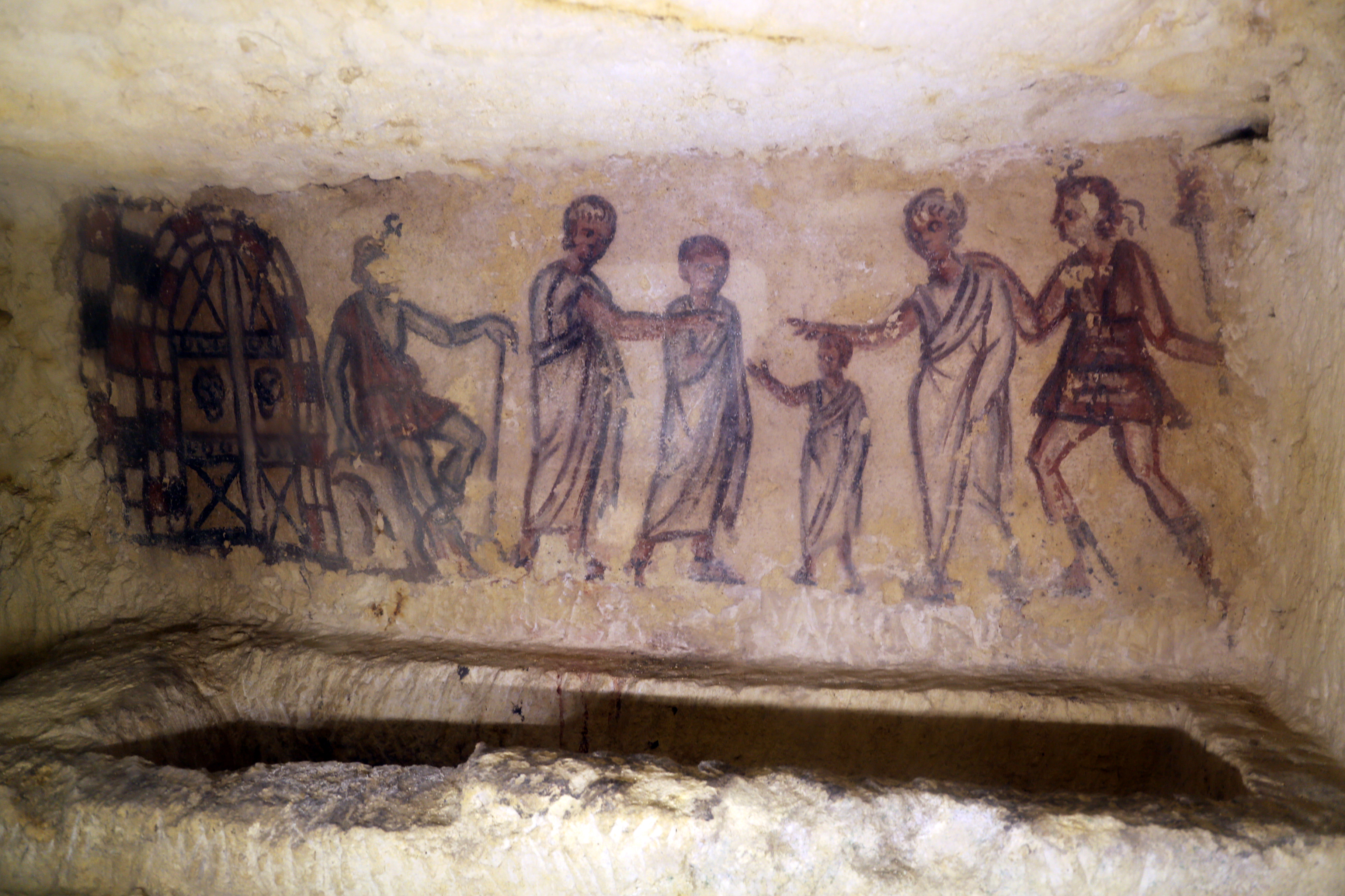 Necropoli dei Monterozzi (Tarquinia)